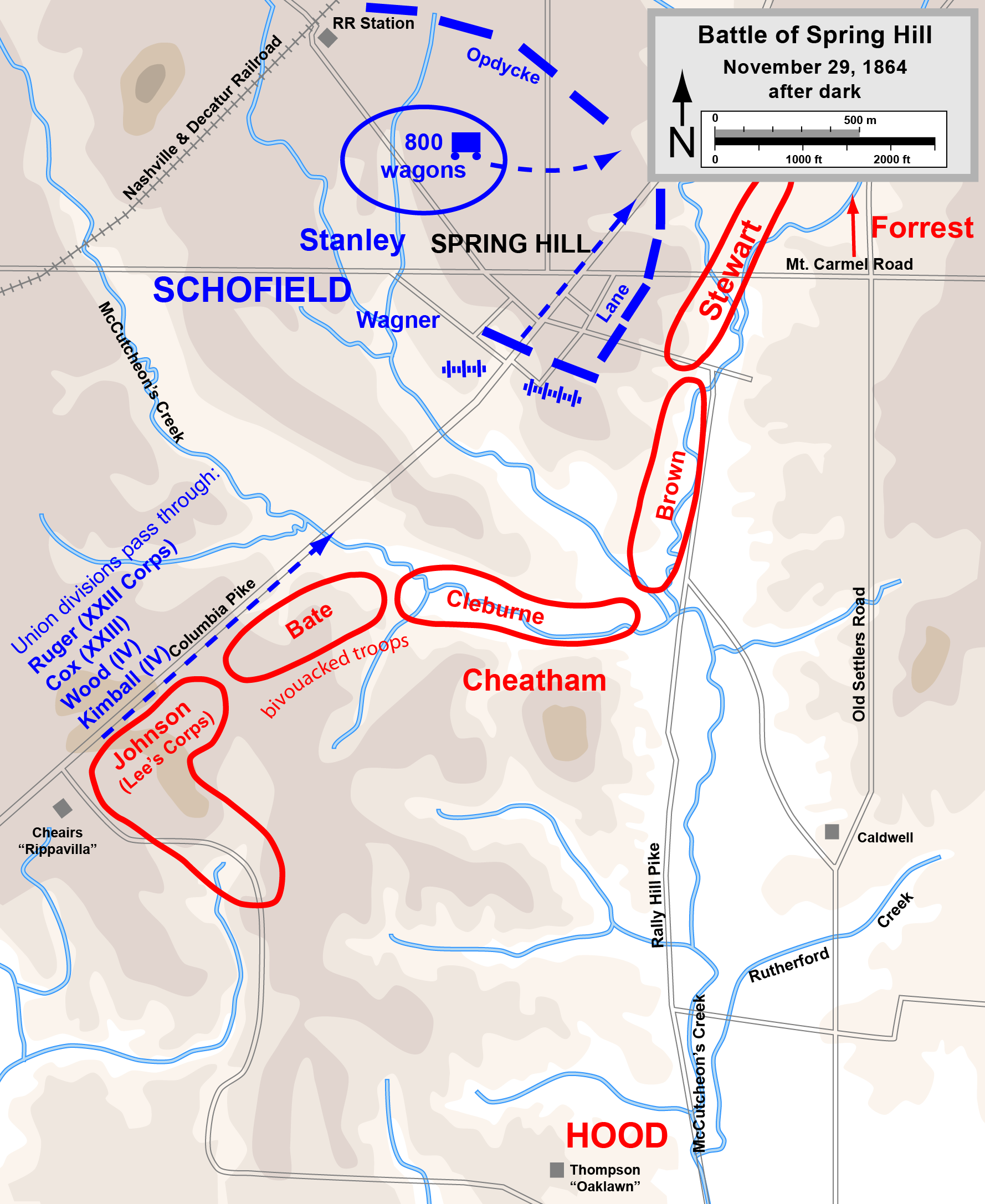 Map of the Battle of Spring Hill of the American Civil War: actions in the evening of November 29, 1863.